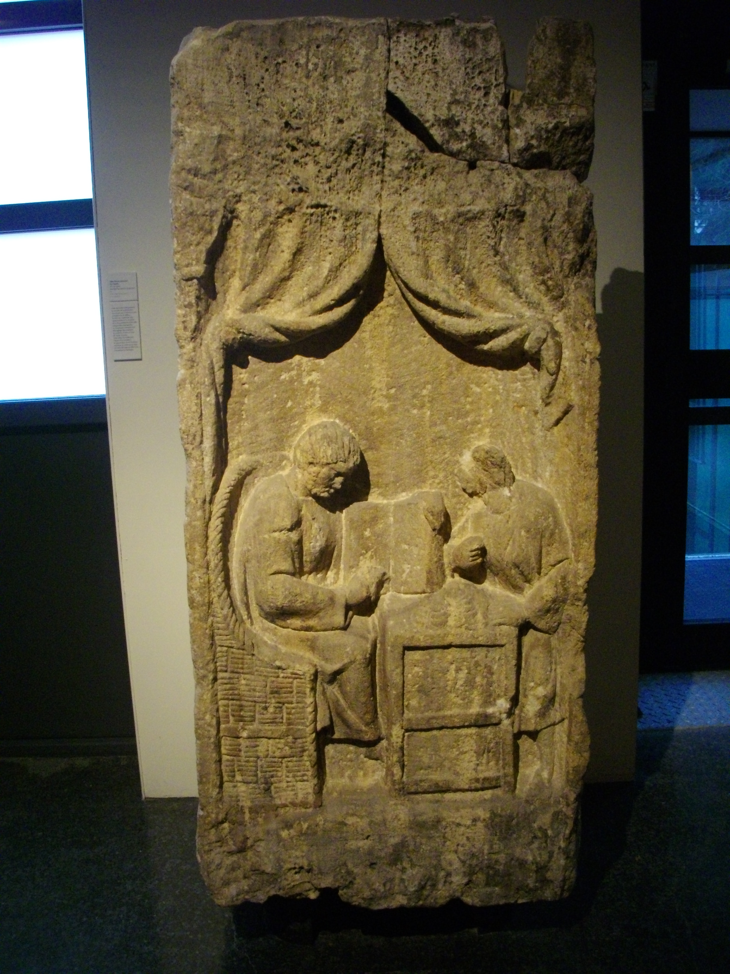 Stele representing the "paiment of taxes", Jaumont limestone, 2nd-3rd century, Metz. Kept in Musées de la Cour d'Or